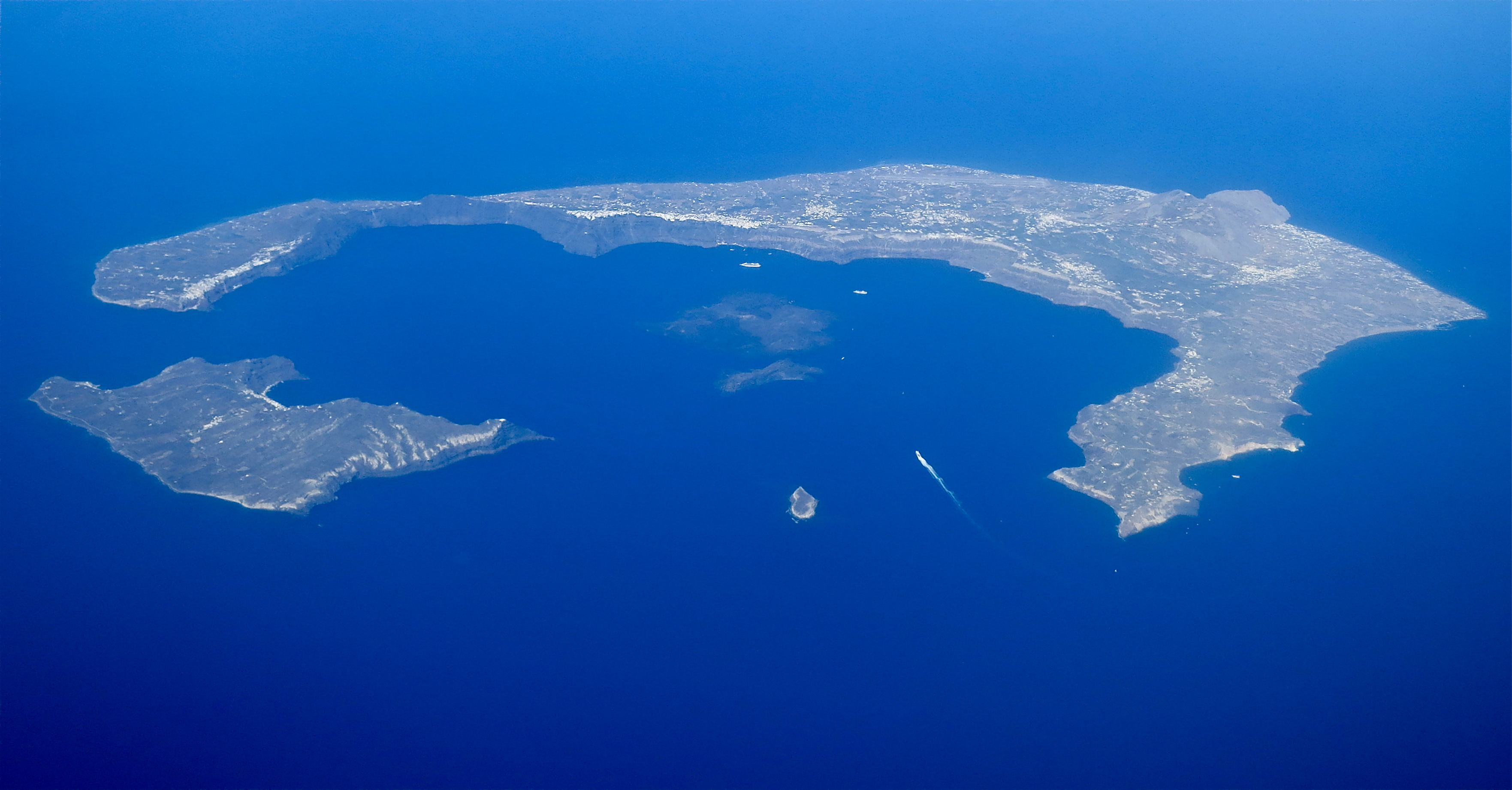 That was one massive volcanic burst... and now just the lips of the volcano rise above sea level. The white parts along the ridge lines are cliff-hugging buildings. "The huge Minoan eruption of Santorini in the 17th century BC was rated 7, the highest score for a historical eruption, in the Smithsonian Global Volcanism Program's Volcanic Explosivity Index." (wikipedia)